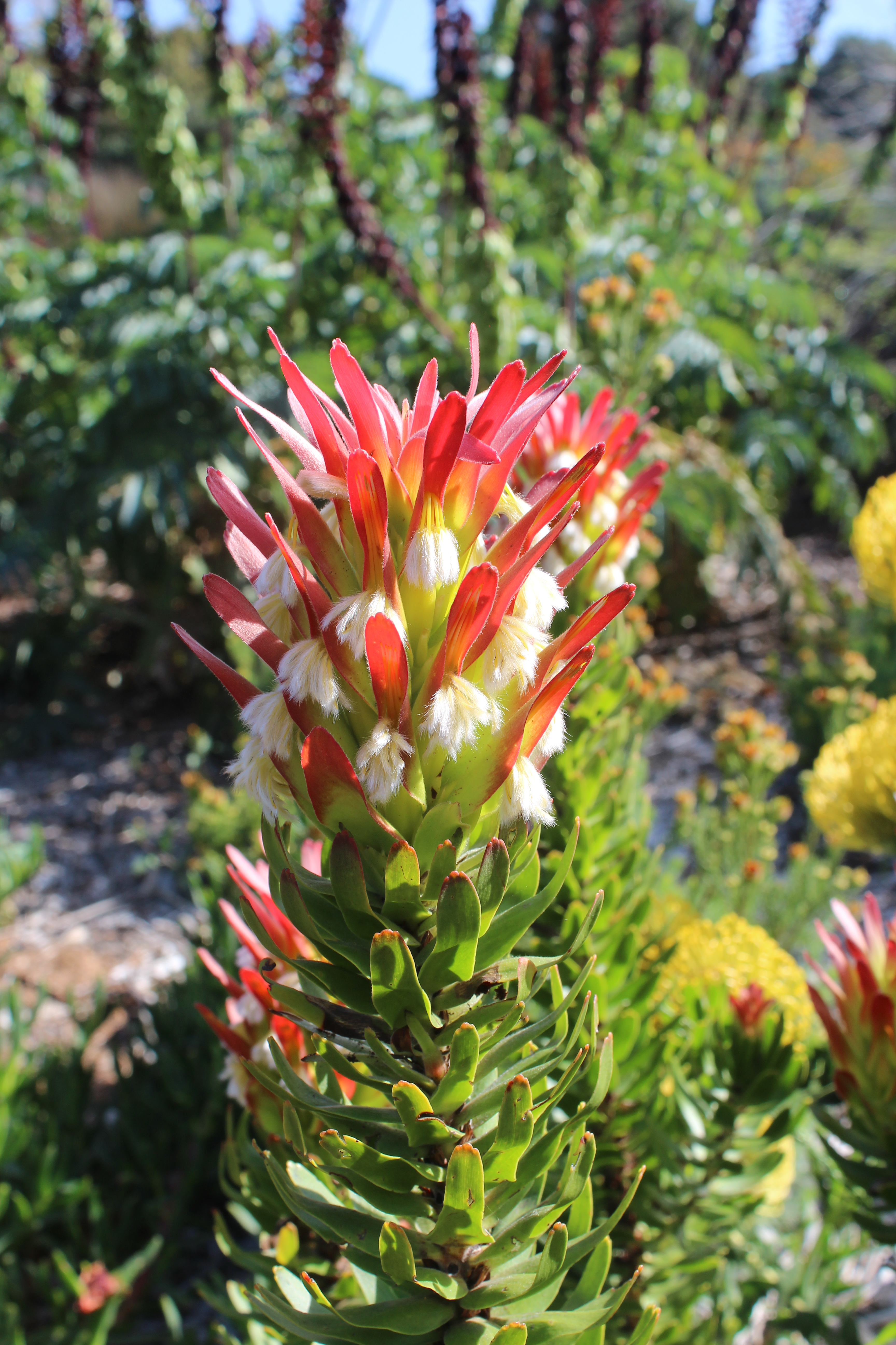 Mimetes cucullatus (common mimetes, common pagoda, red mimetes, red pagoda)[1] photographed at Kirstenbosch Gardens, Cape Town, South Africa.